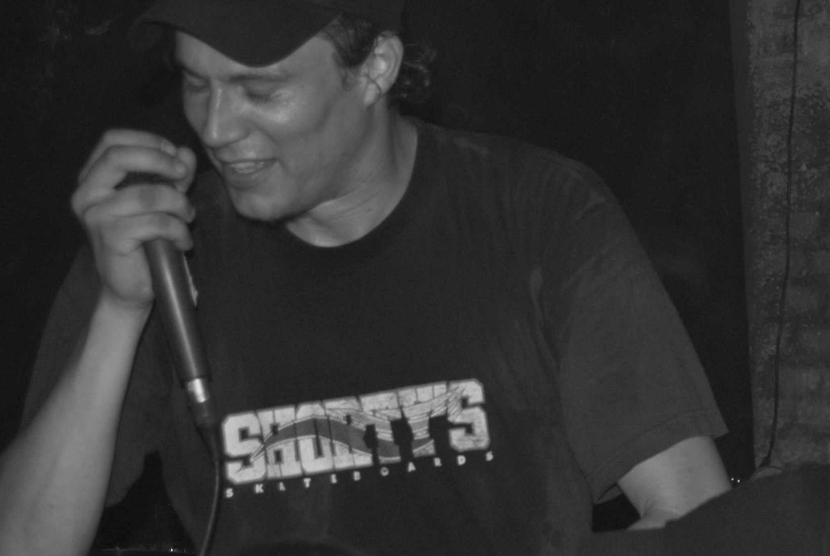 Singer AndréKill Kim Novak